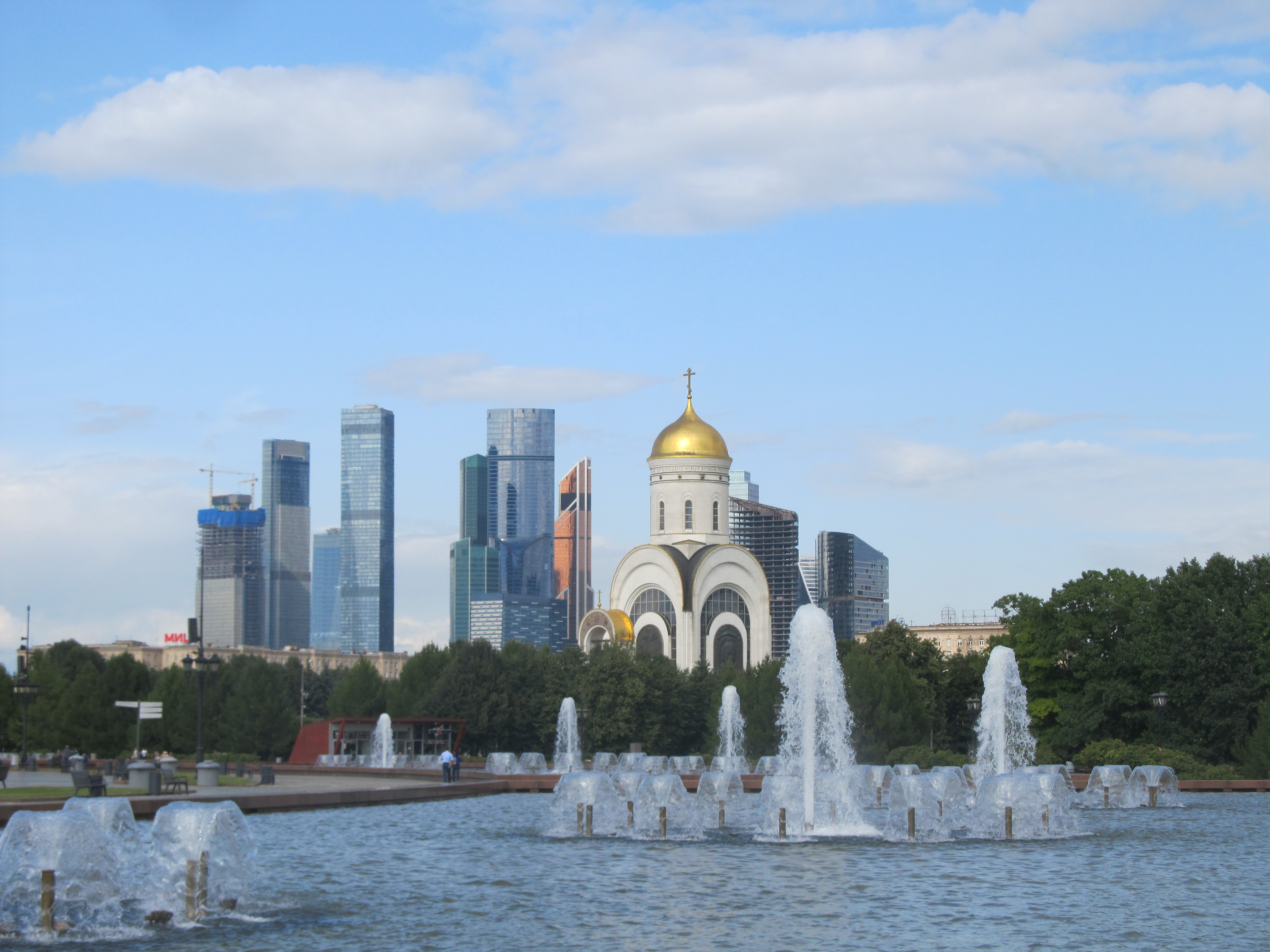 Church of Saint George in Poklonnaya Hill and Moscow International Business Center. Wikitrip in Central Museum of the Great Patriotic War